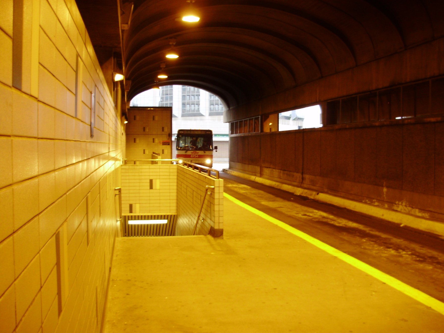 Bus Bay 2 at the Toronto Transit Commission's Islington station in Toronto, Canada. TTC bus 6734, serving the 50 Burnhamthorpe route, is entering the bay.